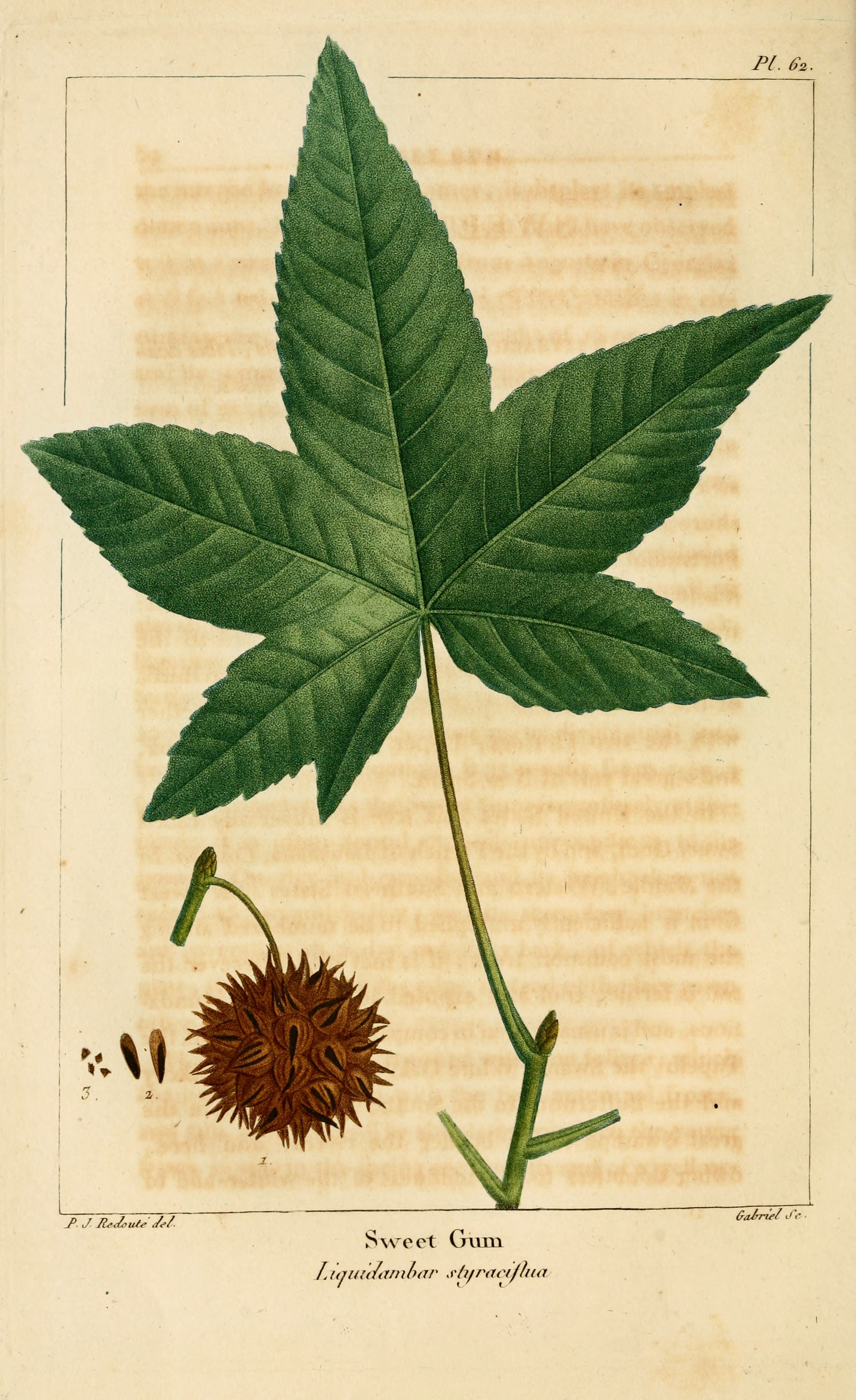 Plate from The North American Sylva